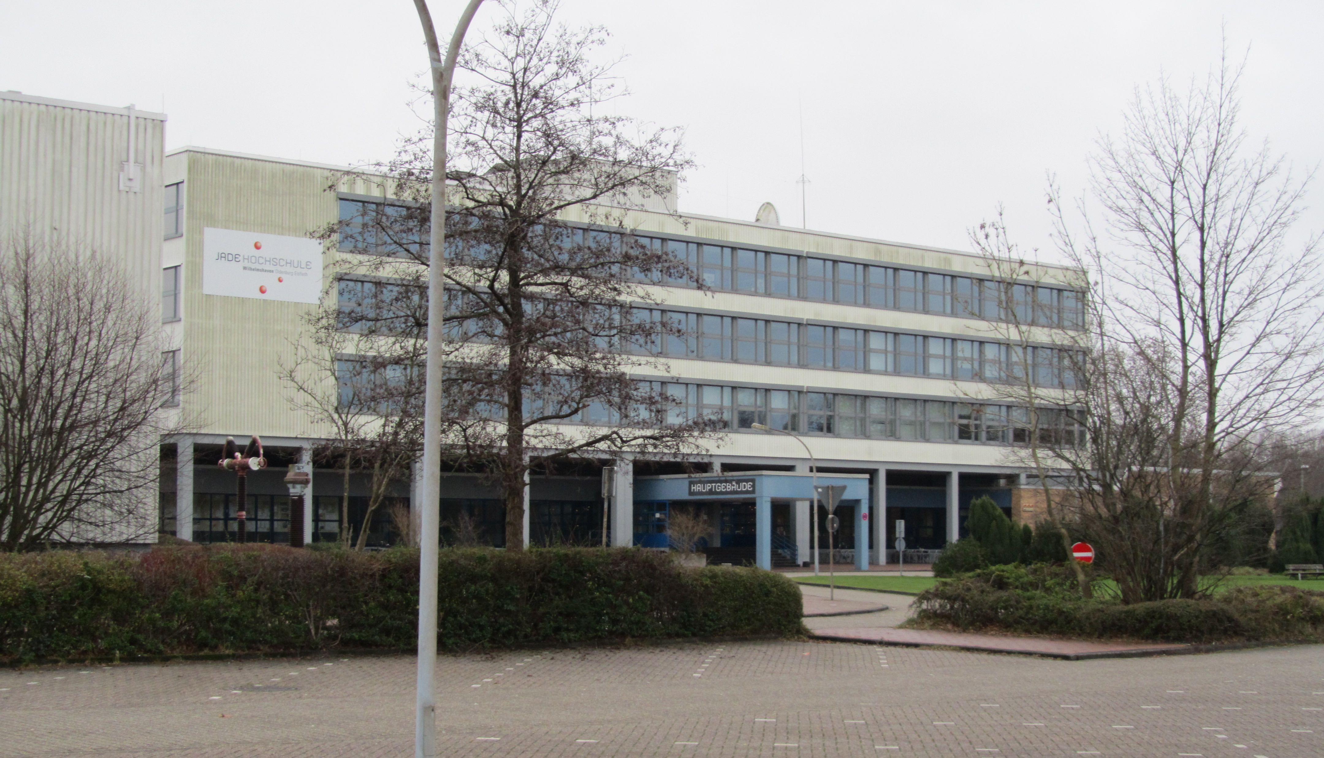 Jade-Hochschule (University of applied sciences), Wilhelmshaven, Germany.